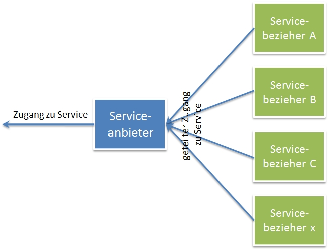 Overbooking from Services